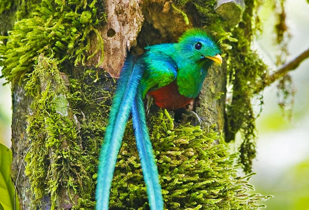 Quetzal at Biotopo del Quetzal in Baja Verapaz, Guatemala